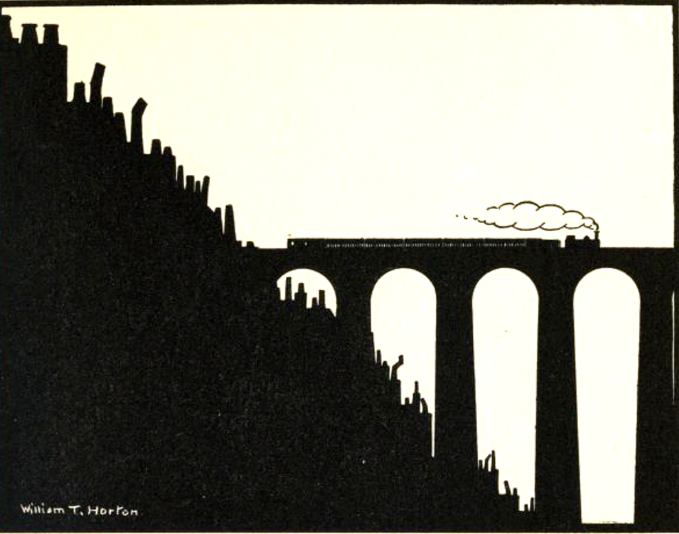 The viaduct, A book of images, 1898, by W.T. Horton (1864-1919), preface by W.B. Yeats (1865-1939).